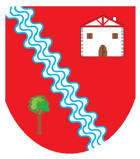 shield of Lizartza